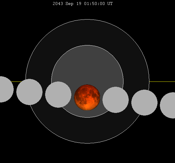 September 2043 lunar eclipse chart of moon's path through the earth's shadow. thumb